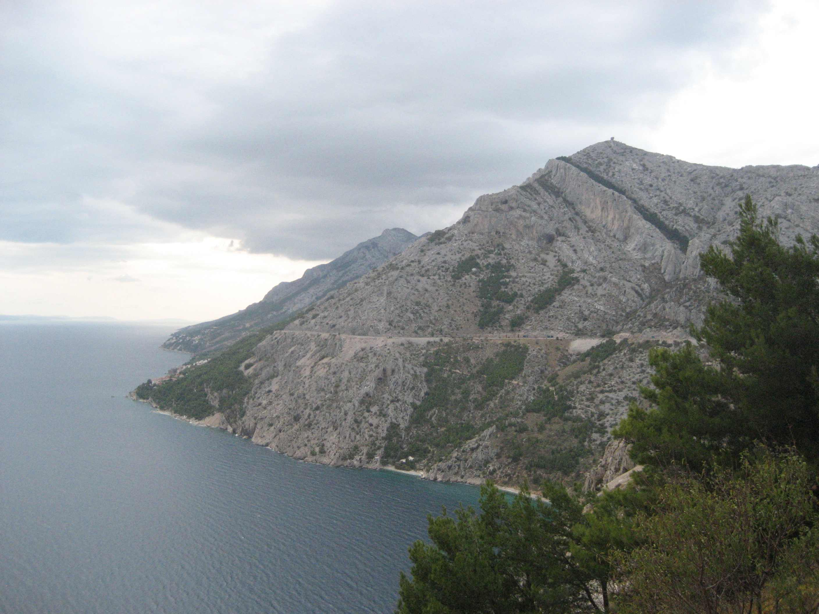 Jadranska Magistrala, road along the Croatian coast